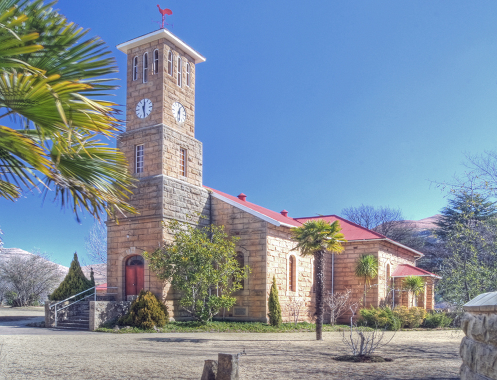 Dutch Reformed Church, Clarens, Free State, South Africa This media shows a South African Protected Site with SAHRA file reference 9/2/300/0026.